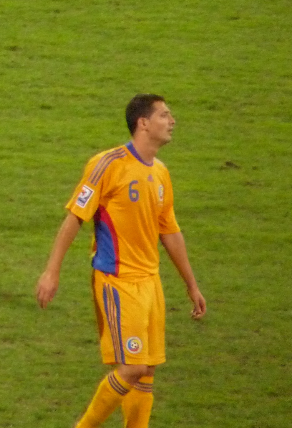 Mirel Rădoi playing for the national football team of Romania against Austria on the Steaua stadium in Bucharest